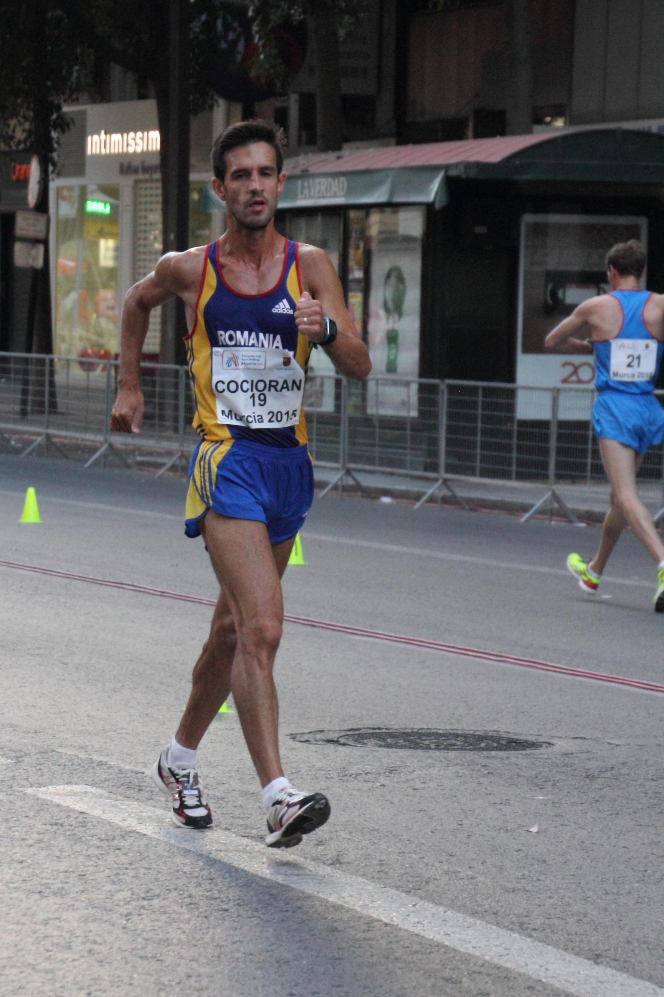 19-Marius Cocioran (ROM) in the European Cup Race Walking 2015 (Murcia, Spain).